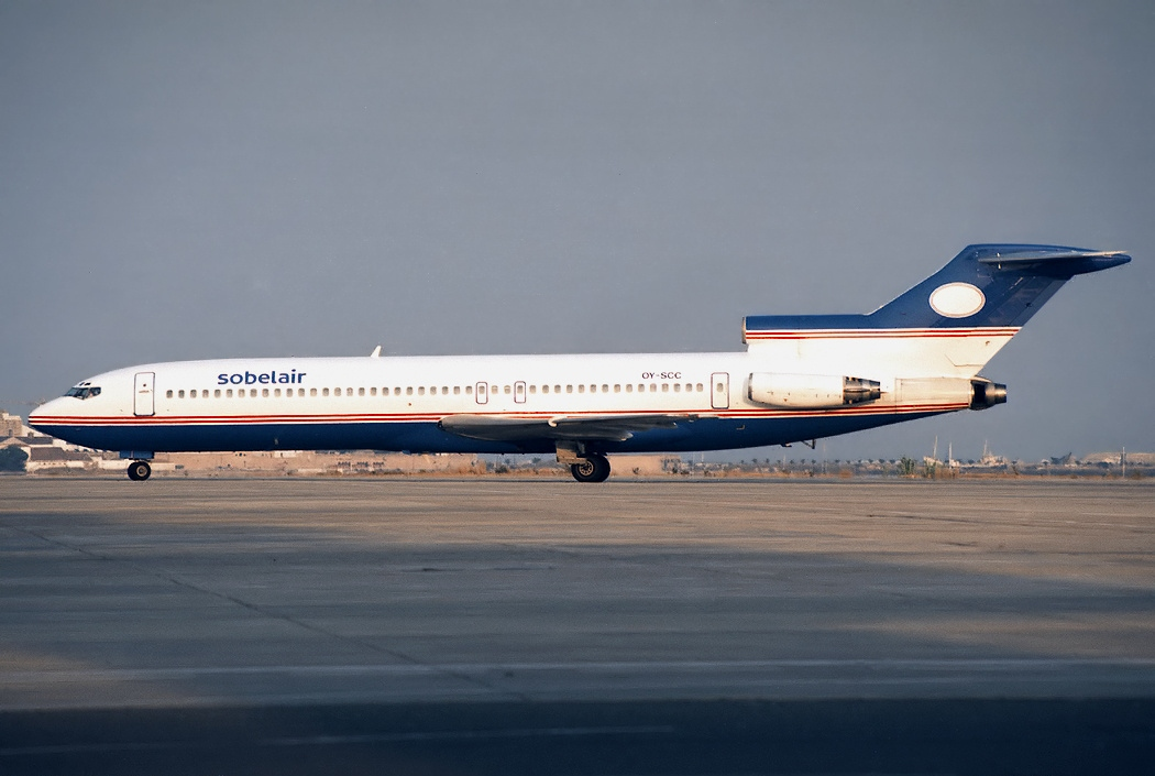 Basic Sterling European c/s.